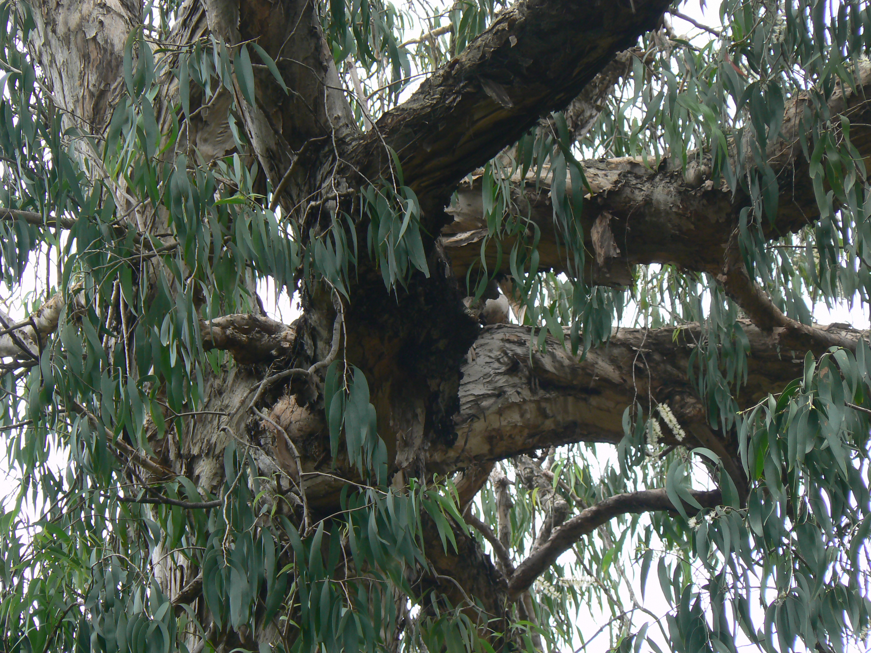 Myrtaceae (myrtle family) » Melaleuca leucadendron me-luh-LOO-kuh -- having a black trunk and white branches lew-kuh-DEN-dron -- from the Greek leukos (white) and dendron (tree) commonly known as: cajeput, cajuput tree, fine leaf melaleuca, punk tree, swamp tea tree, tea tree, white tea tree, white wood • Marathi: कायापुटी kayaputi • Sanskrit: कायापुटी kayaputi • Tamil: கையாப்புடை kaiyapputai ... leaves entire, linear, lanceolate, ash colour, alternate on short foot-stalks References: Floristic Survey by The Institute of Science, Mumbai •